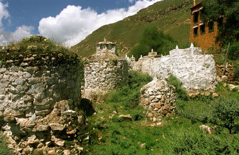 Pabonka Hermitage, Tibet